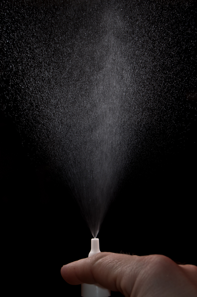 A dramatic photo shot of nasal spray in action. A hand sprays a mist of nasal spray droplets on a black background.